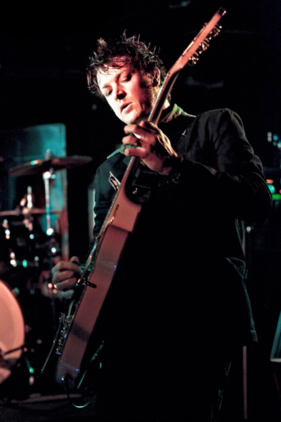 Chris Cheney performing with The Living End in Cologne, Germany